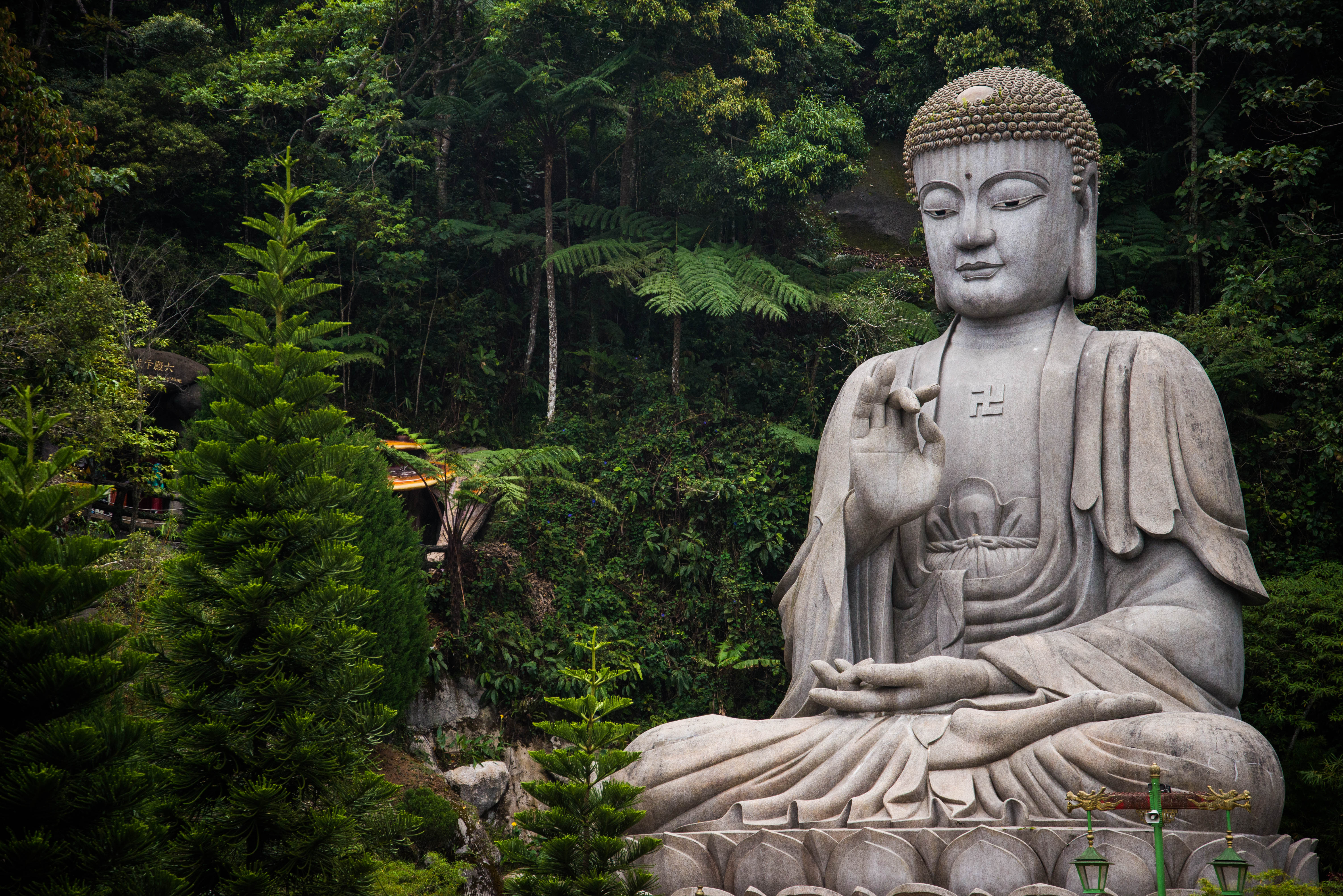 Giant in the trees Genting Highlands, Malaysia.